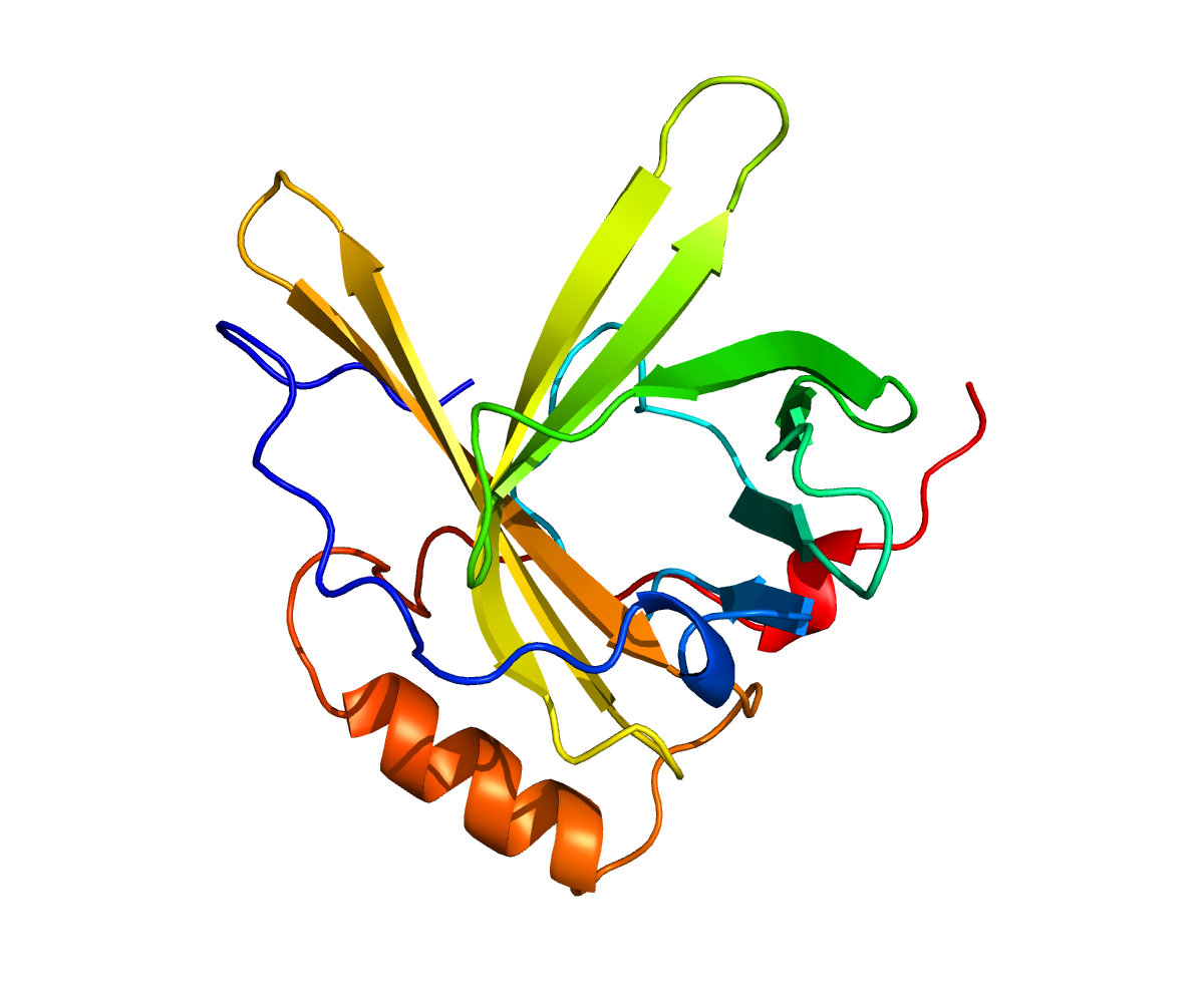 Structure of protein APOD.Based on PyMOL rendering of PDB 2APD.